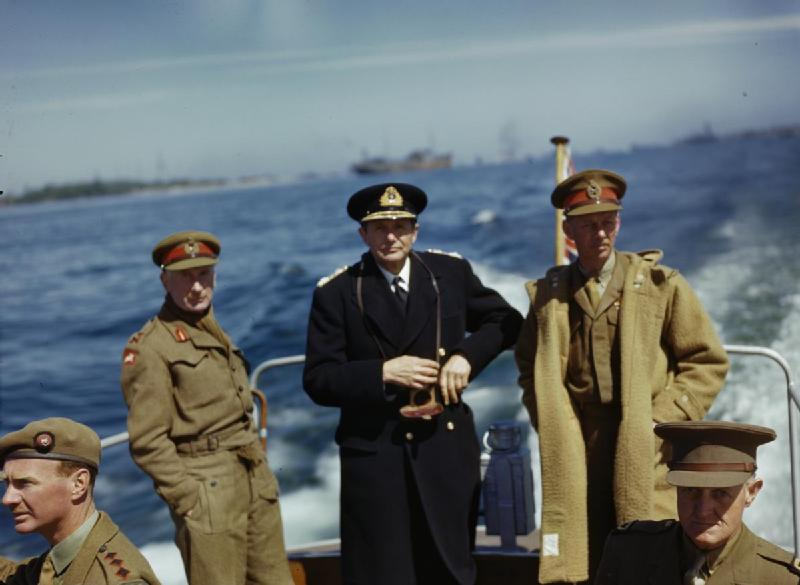 Kiel Harbour, Germany, 19 May 1945 The Commander of the 8th Army Corps, Lieutenant General E H Barker; the Flag Officer in Charge, Kiel Harbour, Rear Admiral H T Baillie-Grohman; and the Commander of the 2nd Army, Lieutenant General Sir Miles Dempsey on the Admiral's barge during a tour of Kiel Harbour.